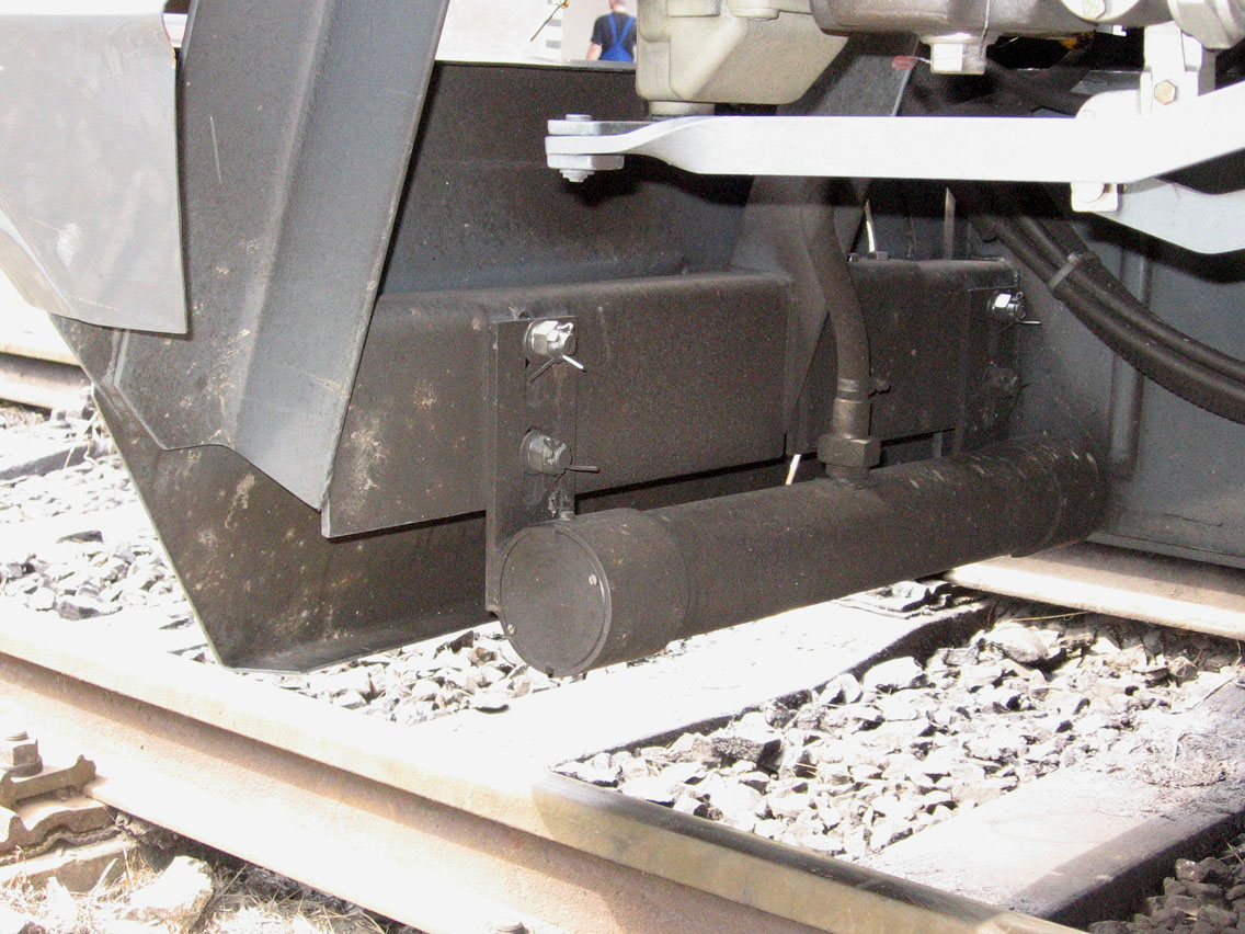 coil of cab signalling LS 90 used in Czechia.